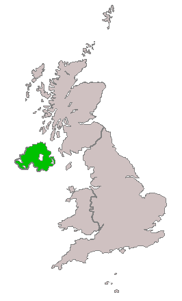 The Irish Football Association’s jurisdiction